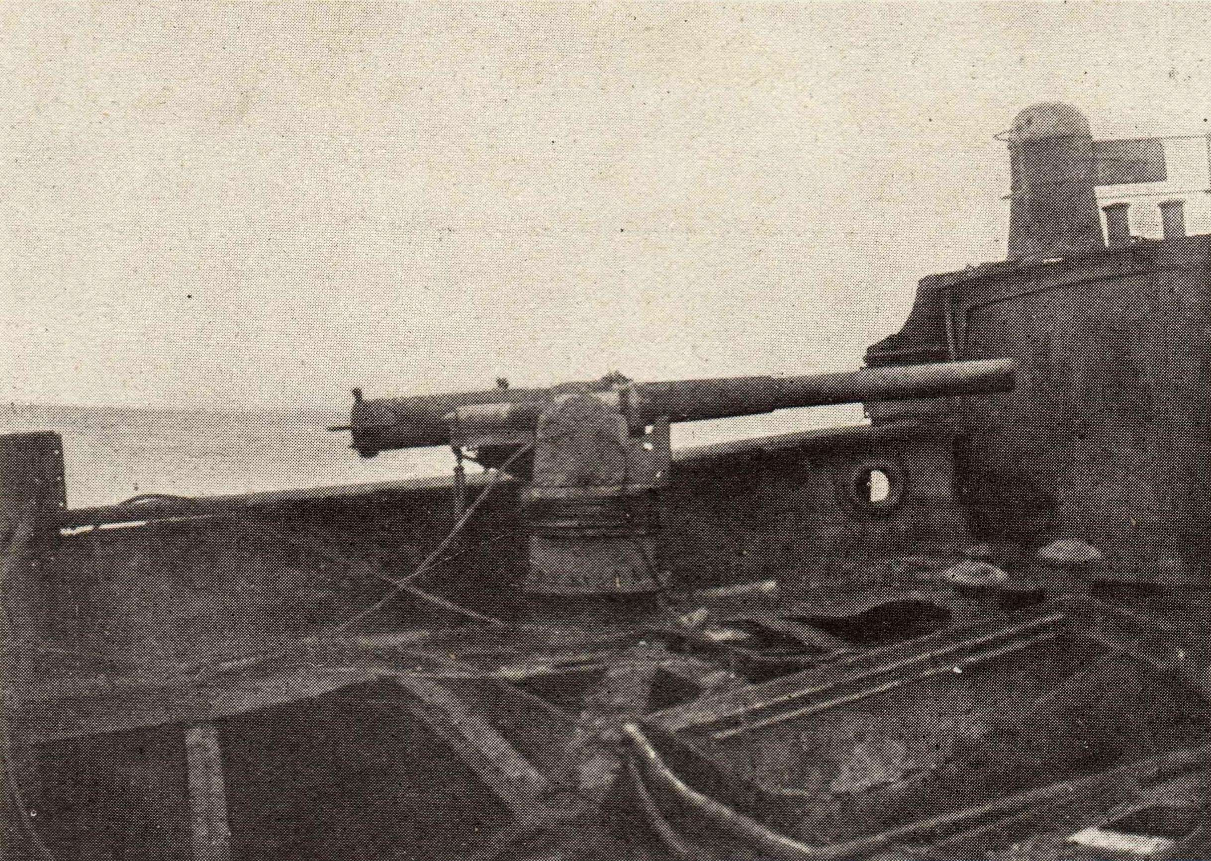 Scan of L'ILLUSTRATION No 3906